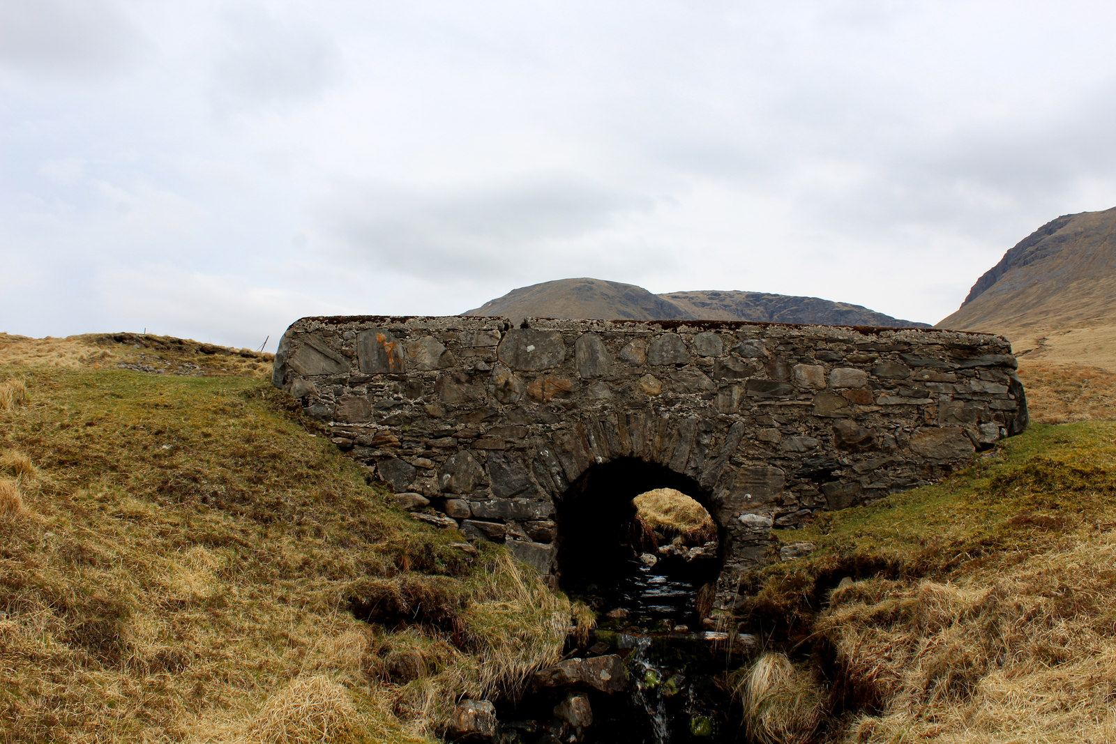 A Bridge along the Old Military Road